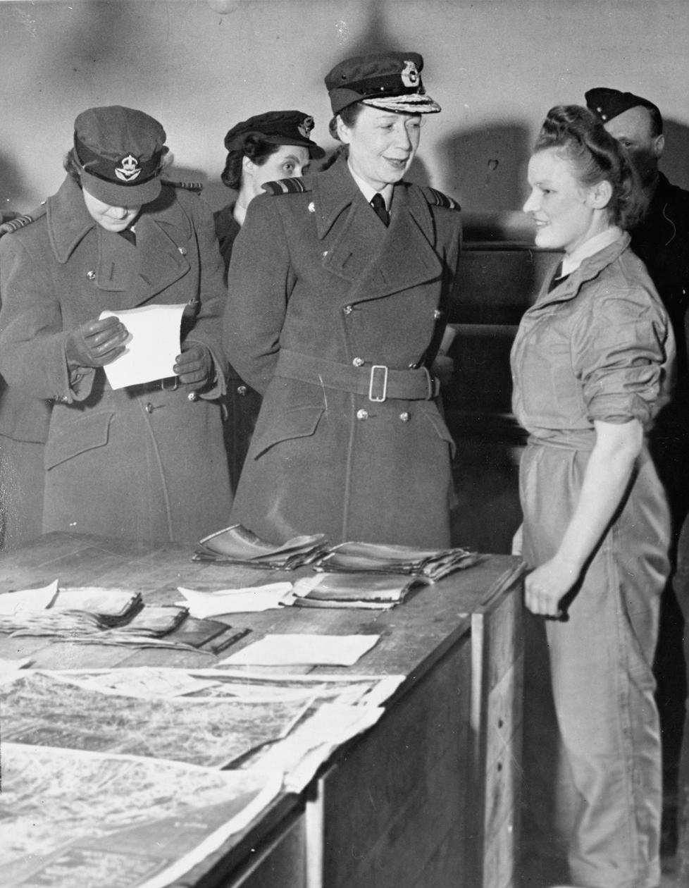 The Women's Auxiliary Air Force, 1939-1945. Air Chief Commandant Lady E M E Welsh, Director of the WAAF, talking with Leading Aircraftwoman Marjorie Nixon in the Sorting Room of the 2nd Tactical Air Force Photographic Negative Library at Keerbergen, during her visit to the WAAF in Belgium. Wing Officer A Stevens stands to the left of Lady Welsh